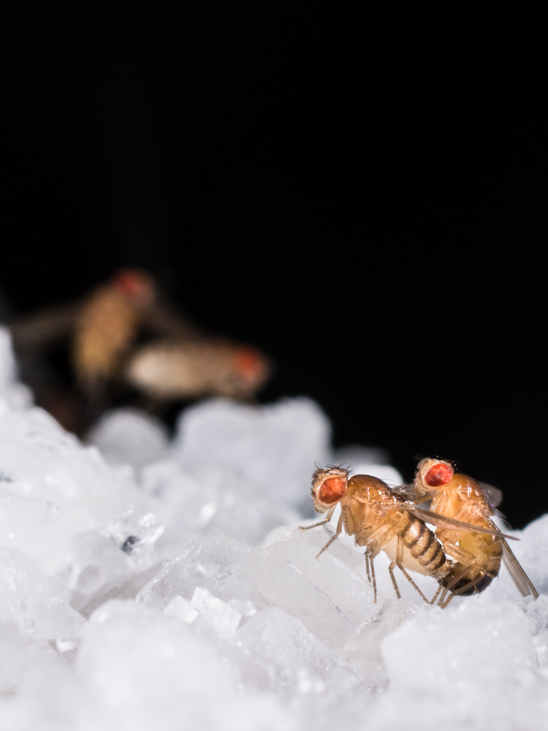 Fruit flies (Drosophila melanogaster) mating whilst walking on salt. The process of mating changes the nutritional requirements of the female fruit fly, as it stimulates egg production. To meet this demand, females increase their intake of salt following mating, since salt intake supports egg production.